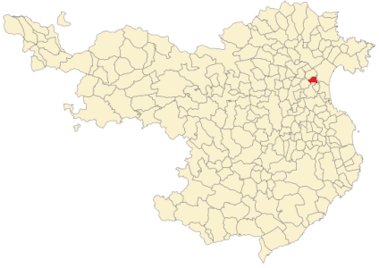 Riumors